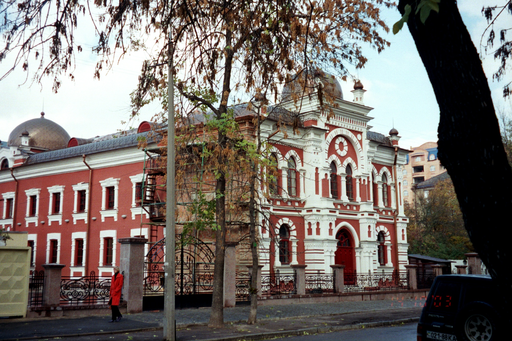 The Synagogue in Podol district, Kiev